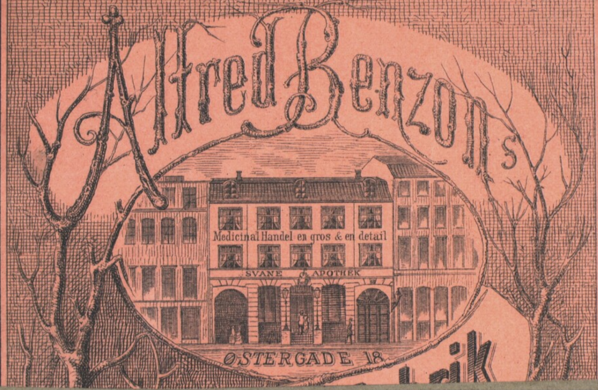 Alfred Benzons Medicinal Handel en gros & en detail om Østergade in Copenhagen,Denmark